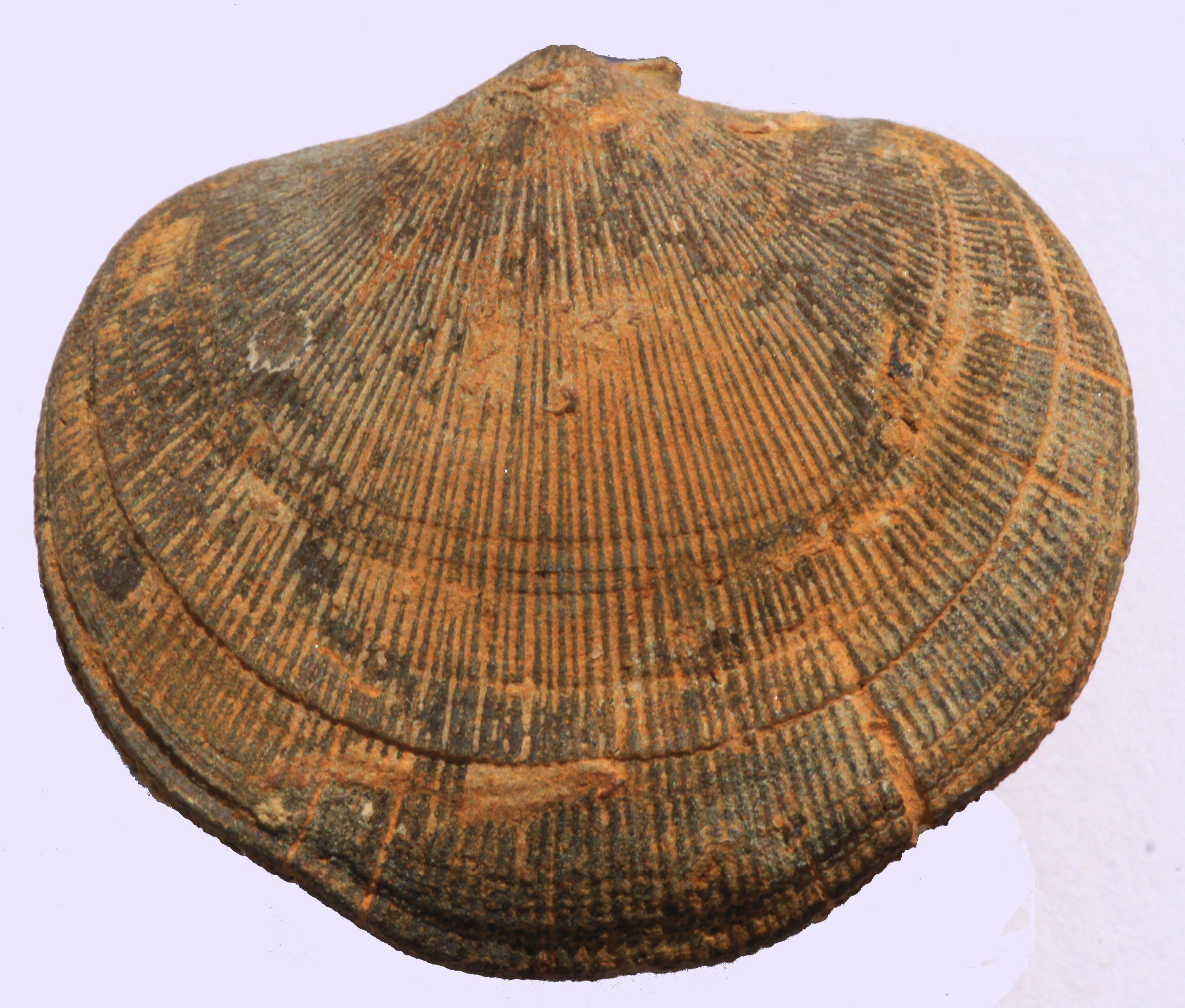 A Dagnachonetes supragibbosa lampshell, Order Productida, Family Chonetidae, 24mm measured along the axis, brachial valve, collected at the Holy Cross Mountains near Skaly, Poland, form the early Middle Devonian (Eifellian)